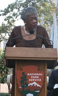 Maya Angelou with Bloomberg and Nadler